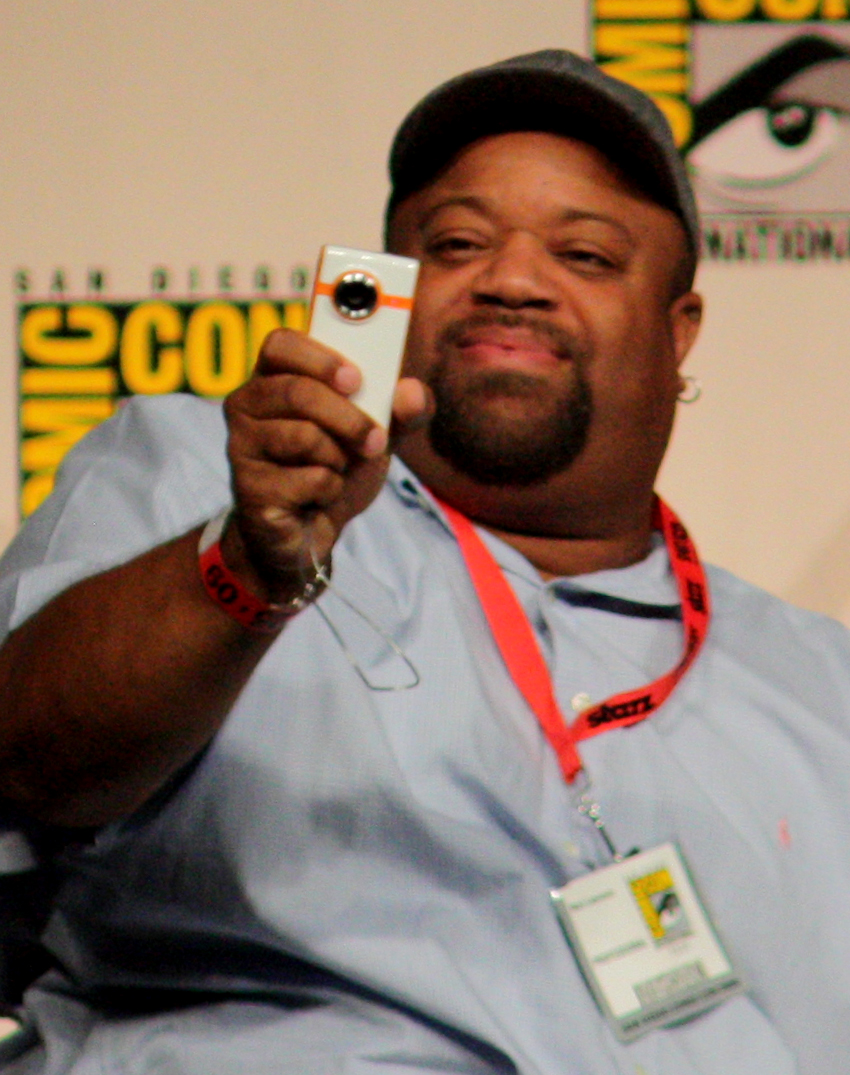 Mark Christopher Lawrence at the 2009 Comic Con in San Diego.